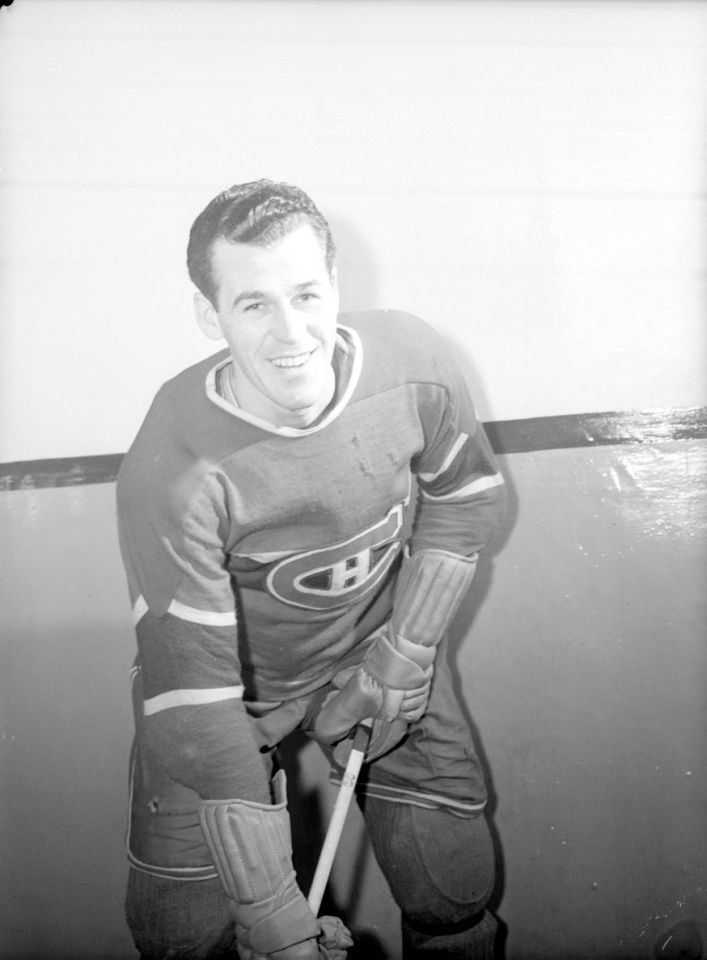 We see Emile (Butch) Bouchard, hockey player for the Montreal Canadiens. It is on the ice, leaning on his stick.